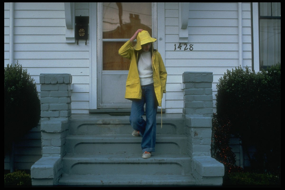 Boy in rain gear, Seattle, Washington, USA, 1980s Item 149277, Water Department Digitized Slides (Record Series 8200-14), Seattle Municipal Archives.